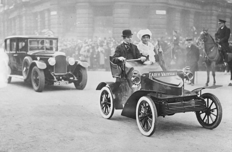 So fuhr man vor 35 Jahren! Alte und neue Zeit. Ein Automobil aus dem Jahre 1895 und eine moderne Luxus-Limousine unserer Zeit bei einer Fahrt durch die Strassen Londons. So you drove 35 years ago! Old and new times. A car from 1895 and a modern luxury sedan of our time on a ride through the streets of London. The second vehicle is a 1930 or 1931 model Vauxhall Westminster seven-seater limousine (i.e. with a division between the driver and his passengers)